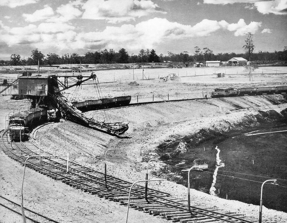 Taken in 1948 or thereabouts. Scanned from Gill, Herman (1949) Three Decades: The story of the State Electricity Commission of Victoria from its inception to December 1948, Hutchinson & Co